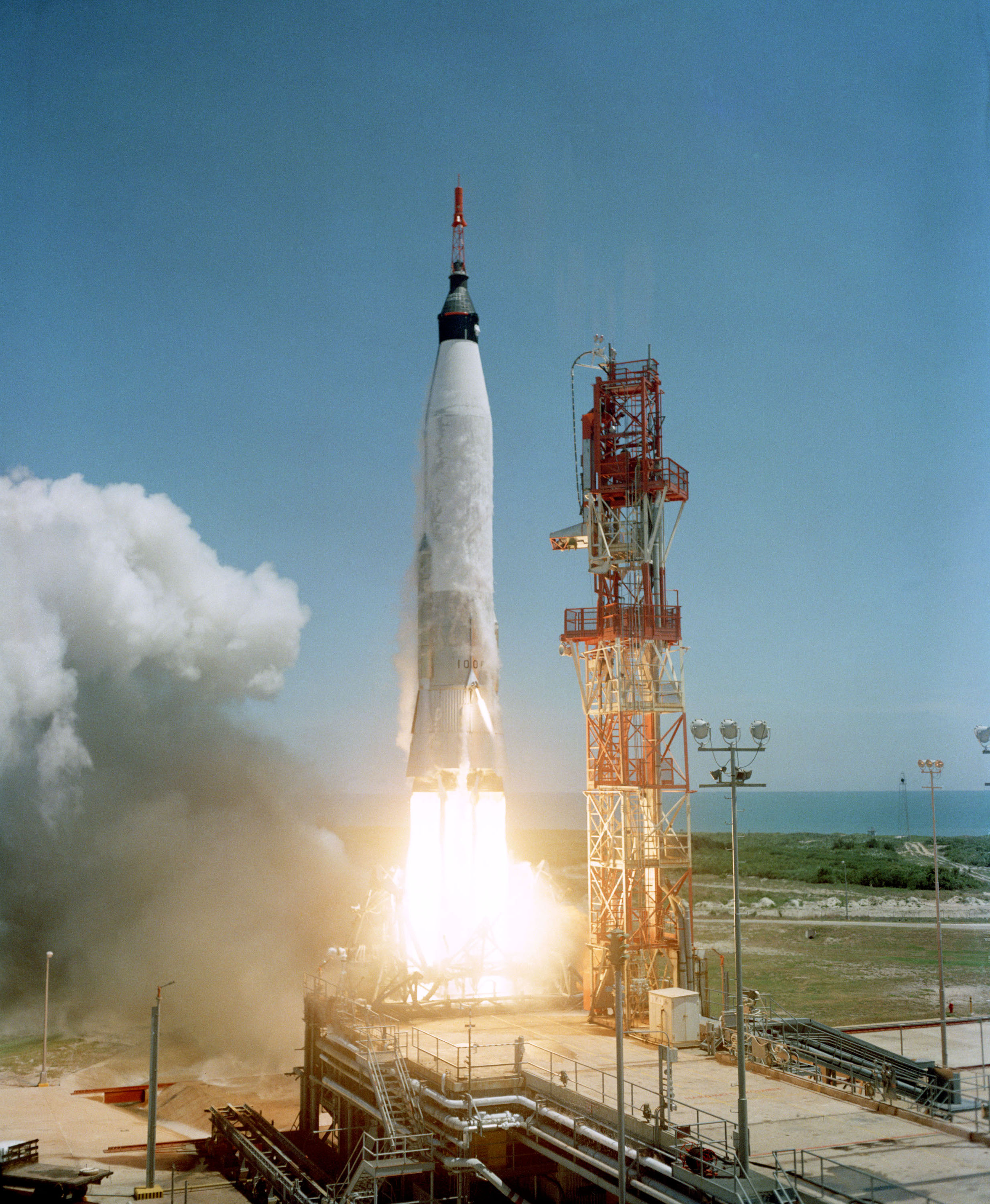 View of the Mercury-Atlas 3 liftoff from Cape Canaveral, Florida on April 25, 1961.